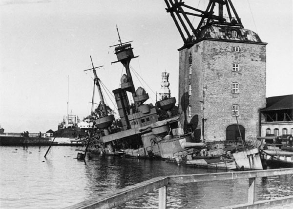 The Danish cruiser Peder Skram sunken at Holmen in Copenhagen, 29 August 1943 (original photo in The Danish National Museum of Military History)